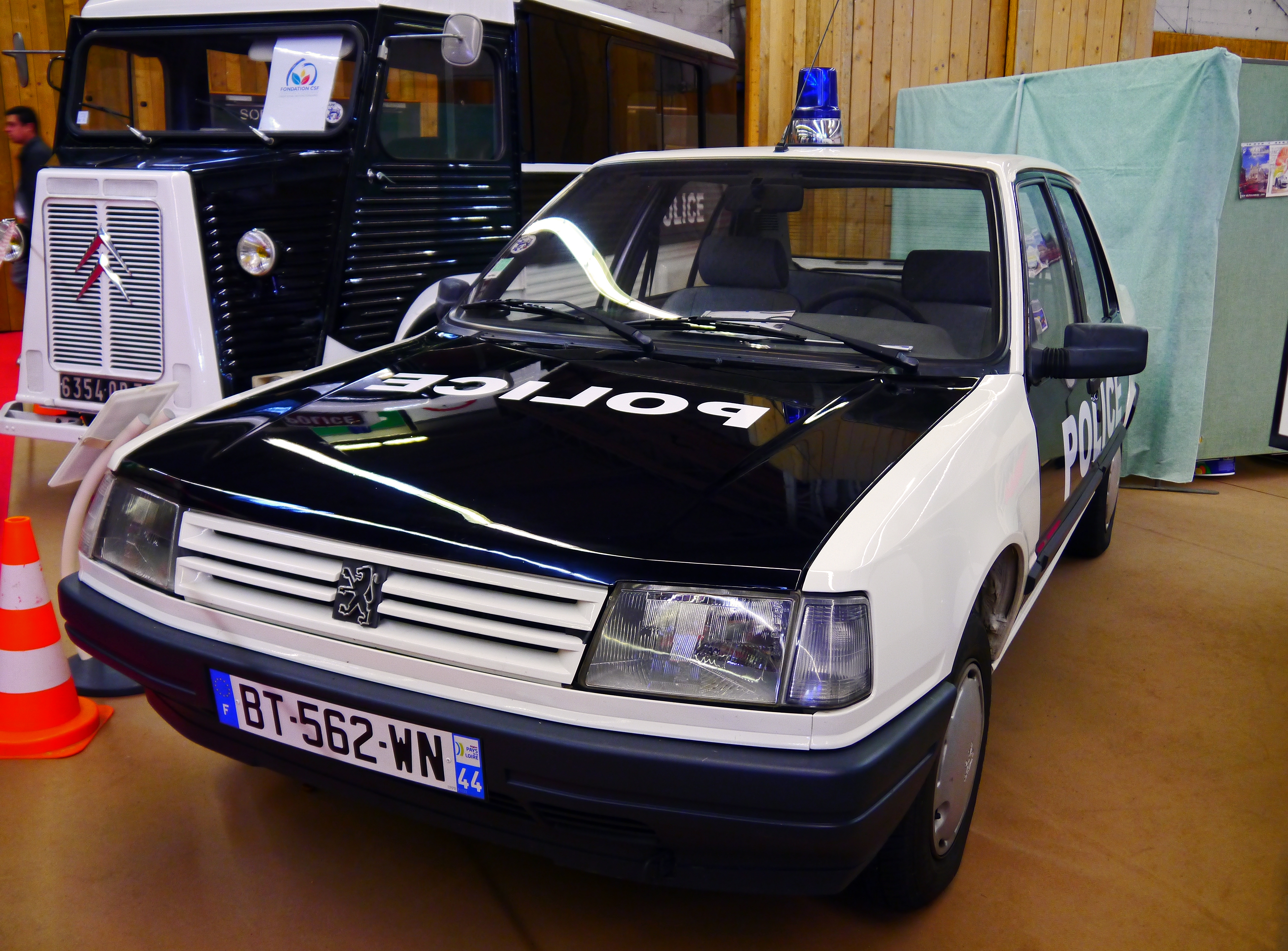 Police Nationale Peugeot 309 GL Profil (65 bhp) "Pie" (magpie livery).